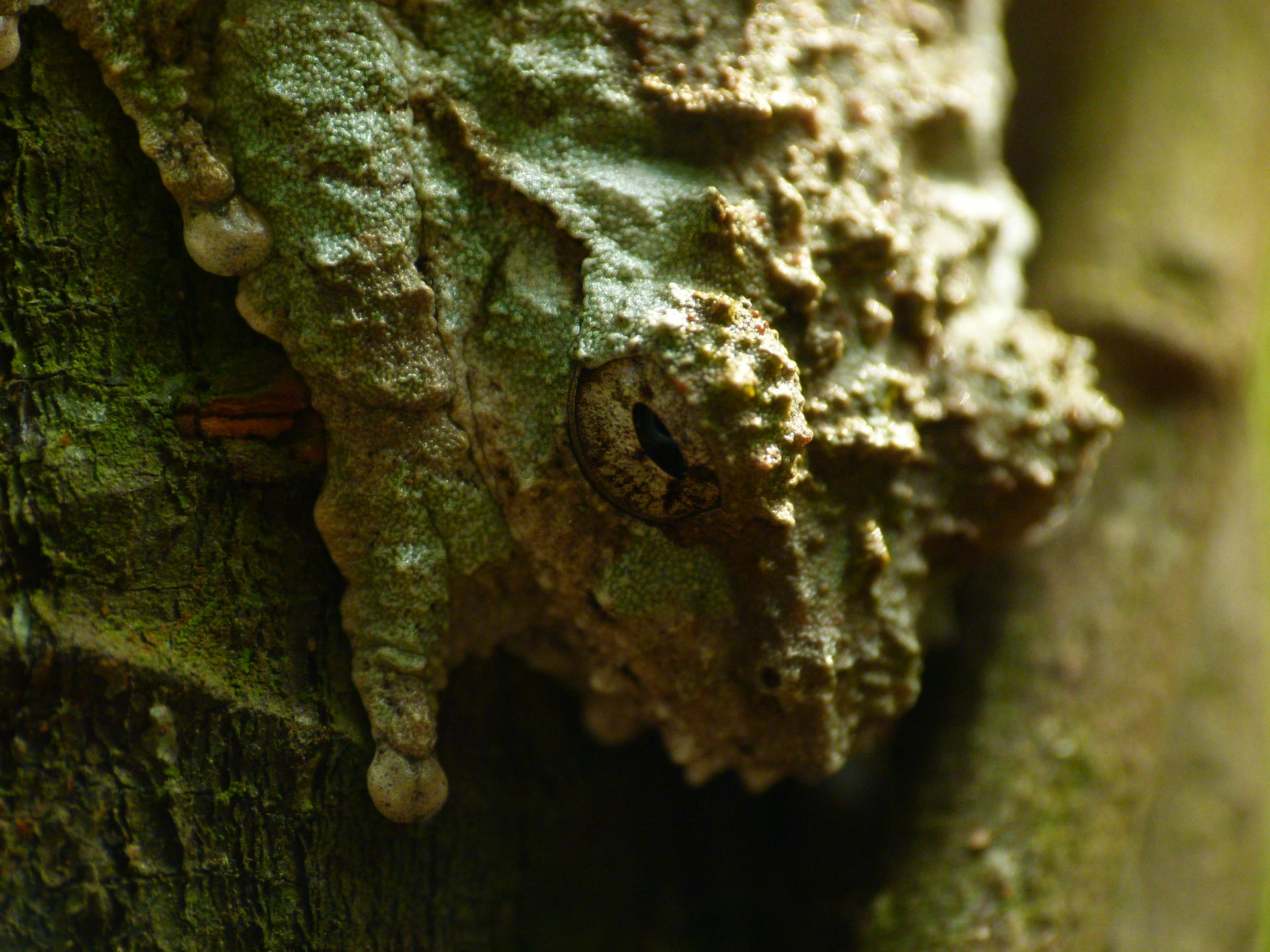 Raorchestes nerostagona in north Wayanad, Kerala